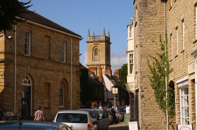 Market Street in Woodstock